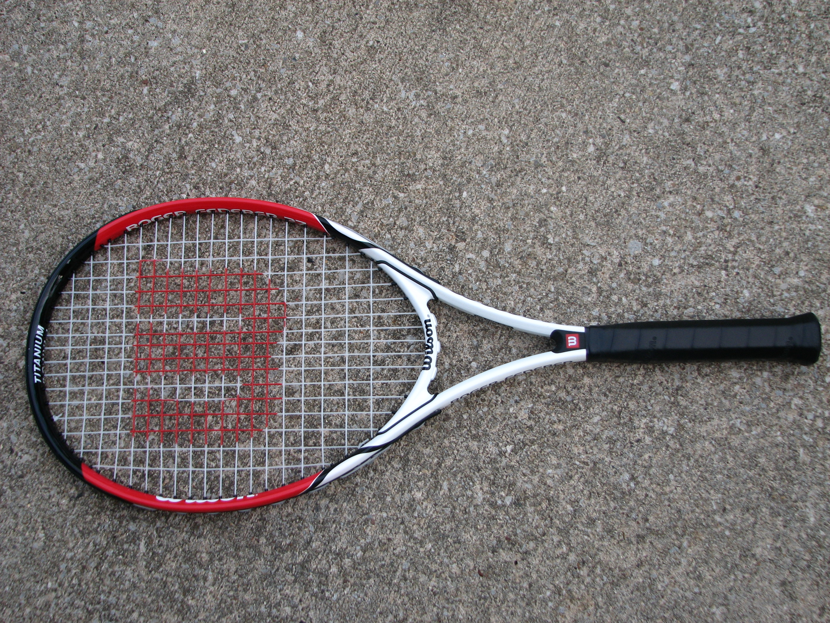 A Wilson brand tennis racquet with a Roger Federer theme and name on it. Racquet has a 4 1/2 inch grip.